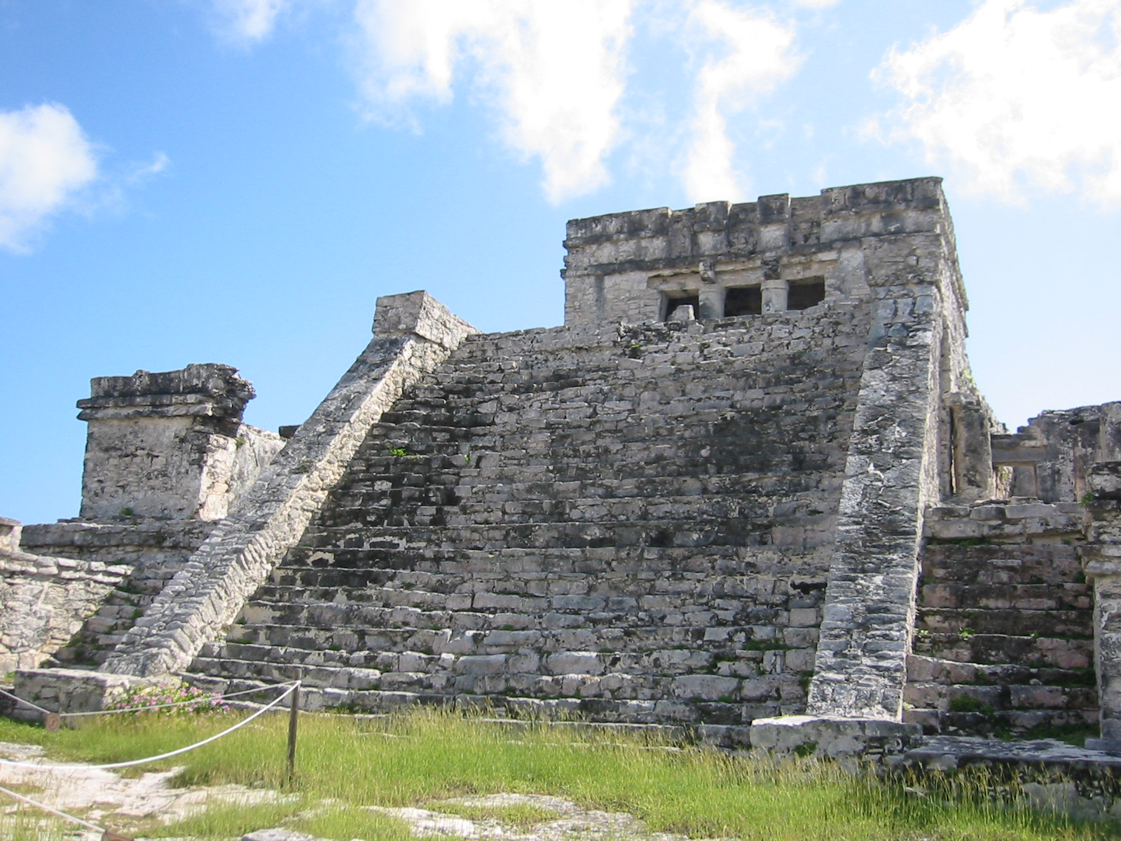 (probably in mexico -Matt)